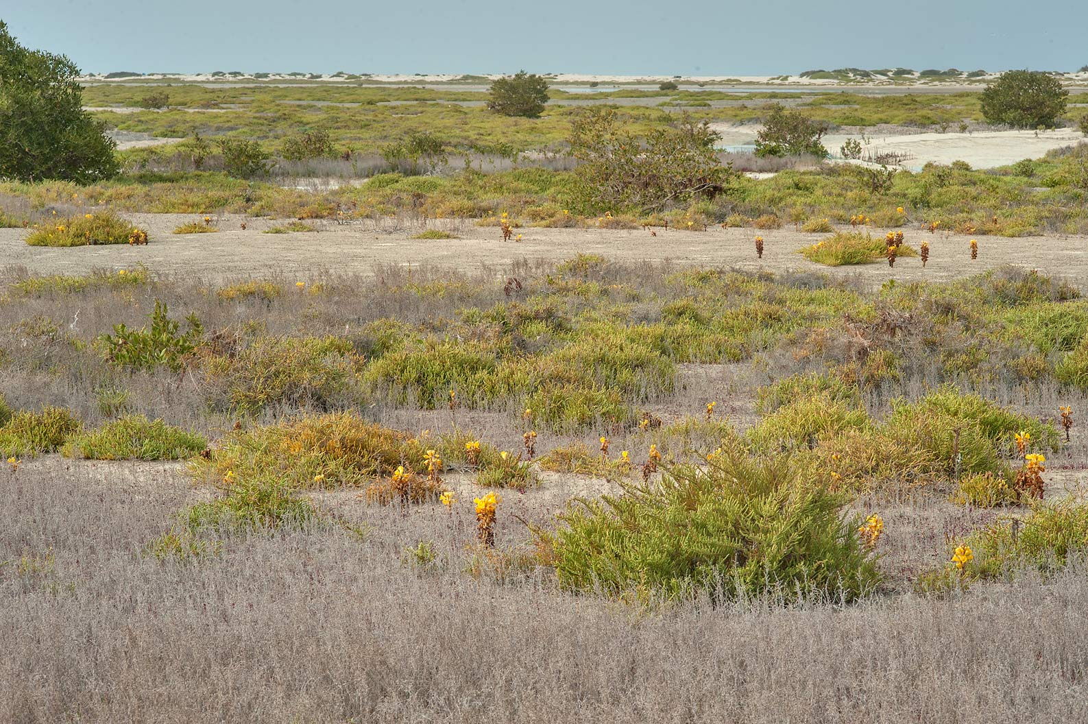 Salt marshes in Umm Tais, northern Qatar.